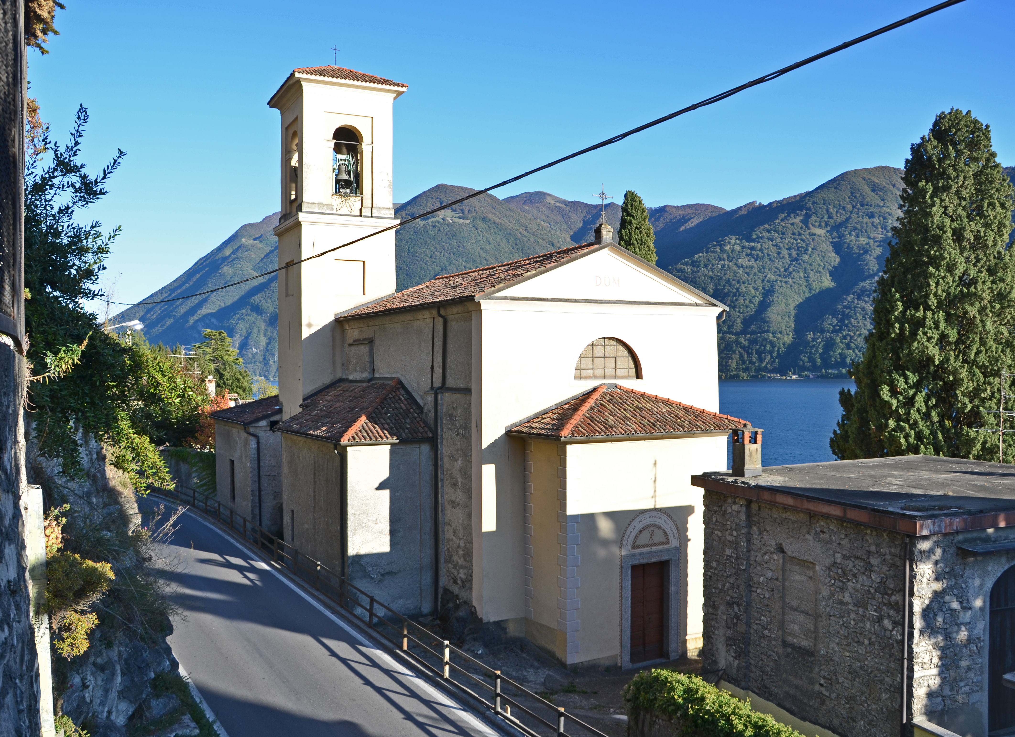 Cultural Heritage Monument San Nicolao Church Cressogno Italy